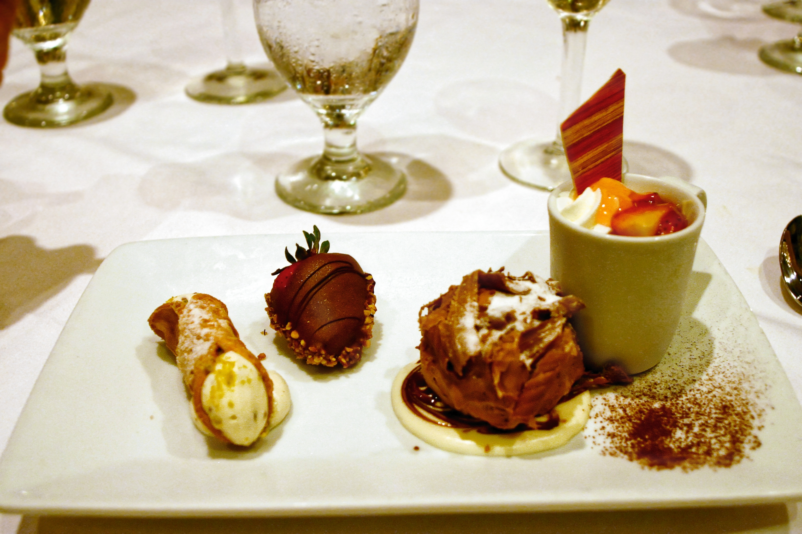 that we have dessert! l. to r.- a sweet cheese and candied fruit cannoli, chocolate dipped strawberry, cream puff with chocolate flakes, and zabaglione with marsala wine sauce and strawberries. UNBELIEVABLE! Photo by Elizabeth (table4five) Website